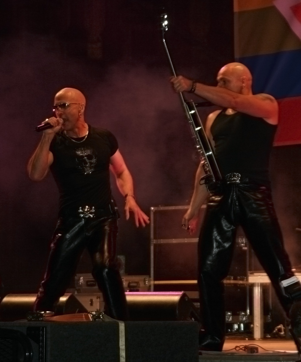 Right Said Fred; performance at the Regenbogenparade (gay pride parade) 2008 in Vienna